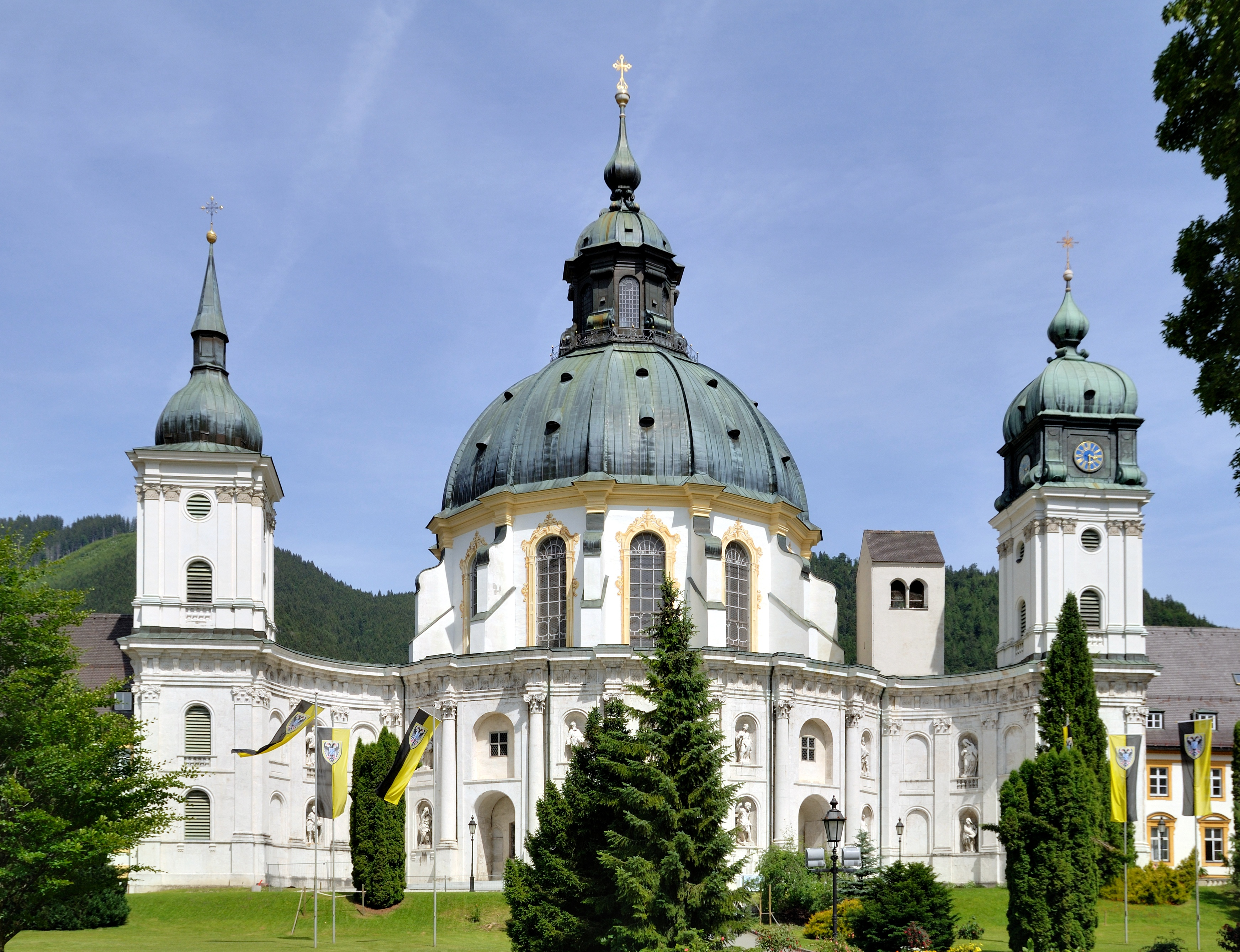 Ettal Abbey